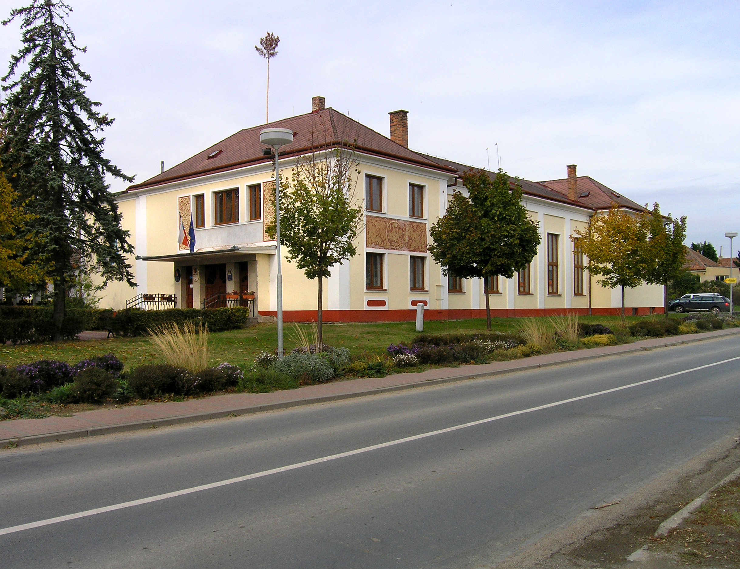 Municipal office in Bořetice, Czech Republic